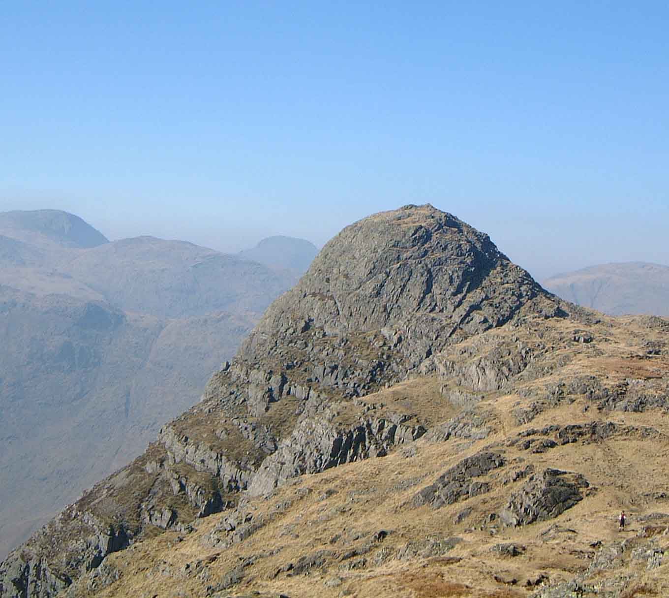 Personal photograph taken by Mick Knapton on 19th March 2003